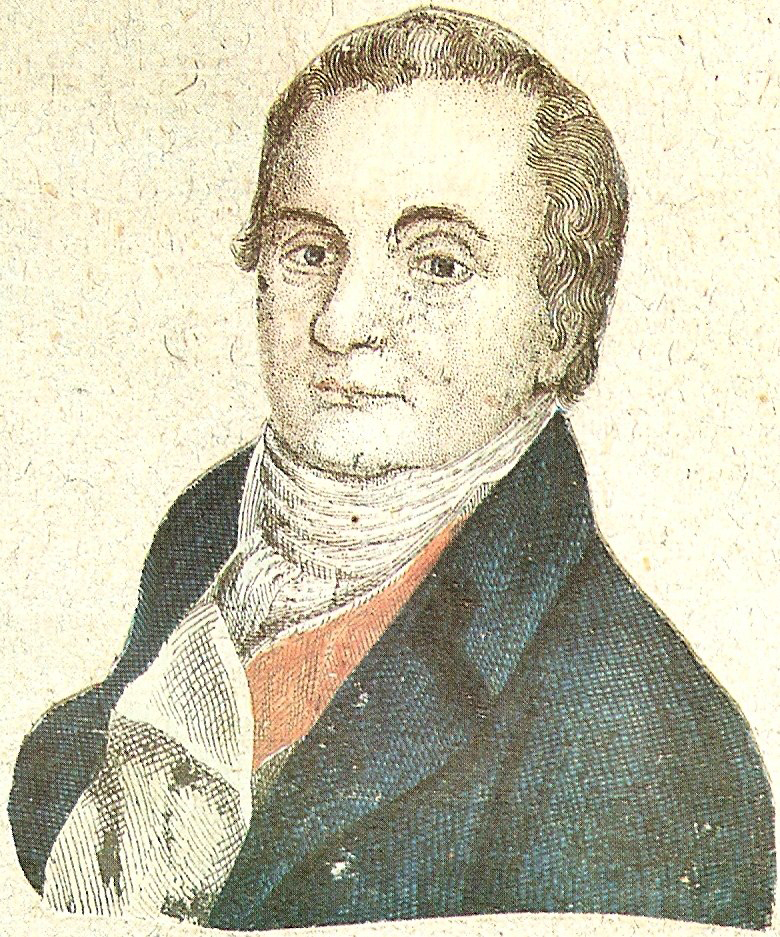 Józef Wybicki (1747-1822) - author of the Polish National Anthem lyrics. Coloured engraving from late 18th or early 19th century.